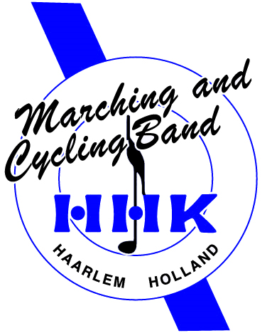 The official MaC-Band HHK logo